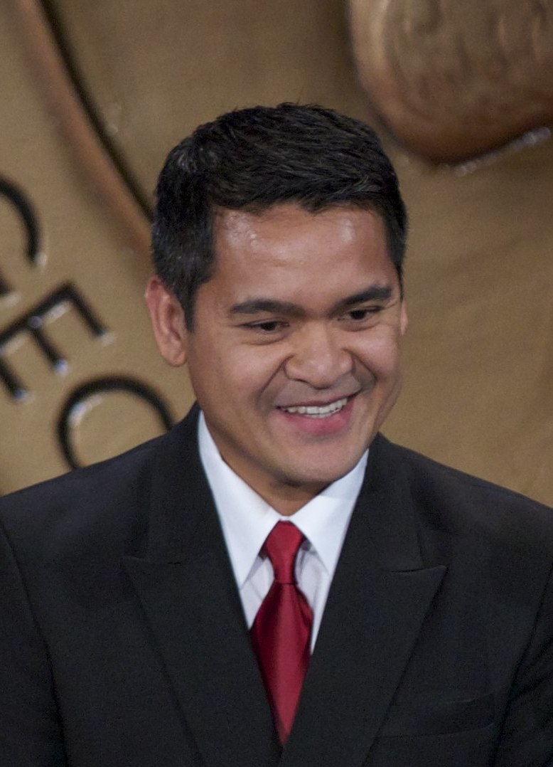 Jiggy Manicad, Jessica Soho, and Marissa L. Flores accept the Peabody Award for GMA News and their coverage of Supertyphoon Yolanda